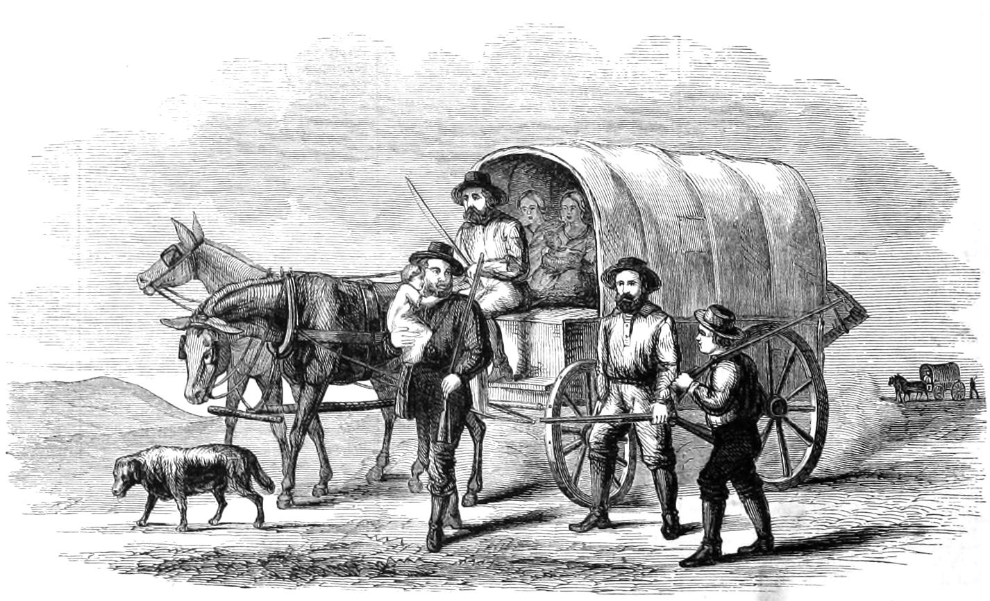 Settlers crossing the Great Plains on their way to California in 1859